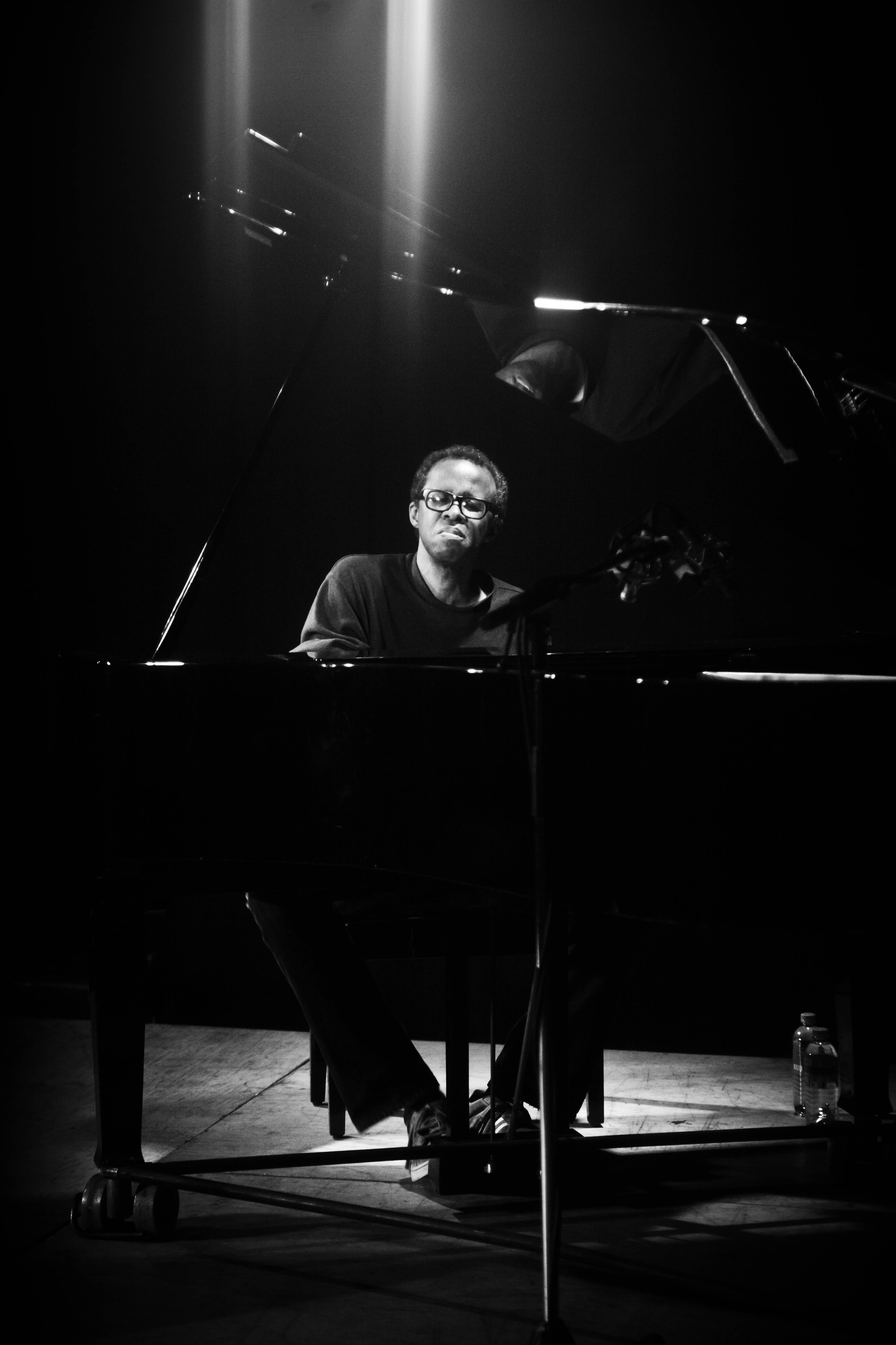 Matthew Shipp and Ivo Perelman in Moscow club "DOM"